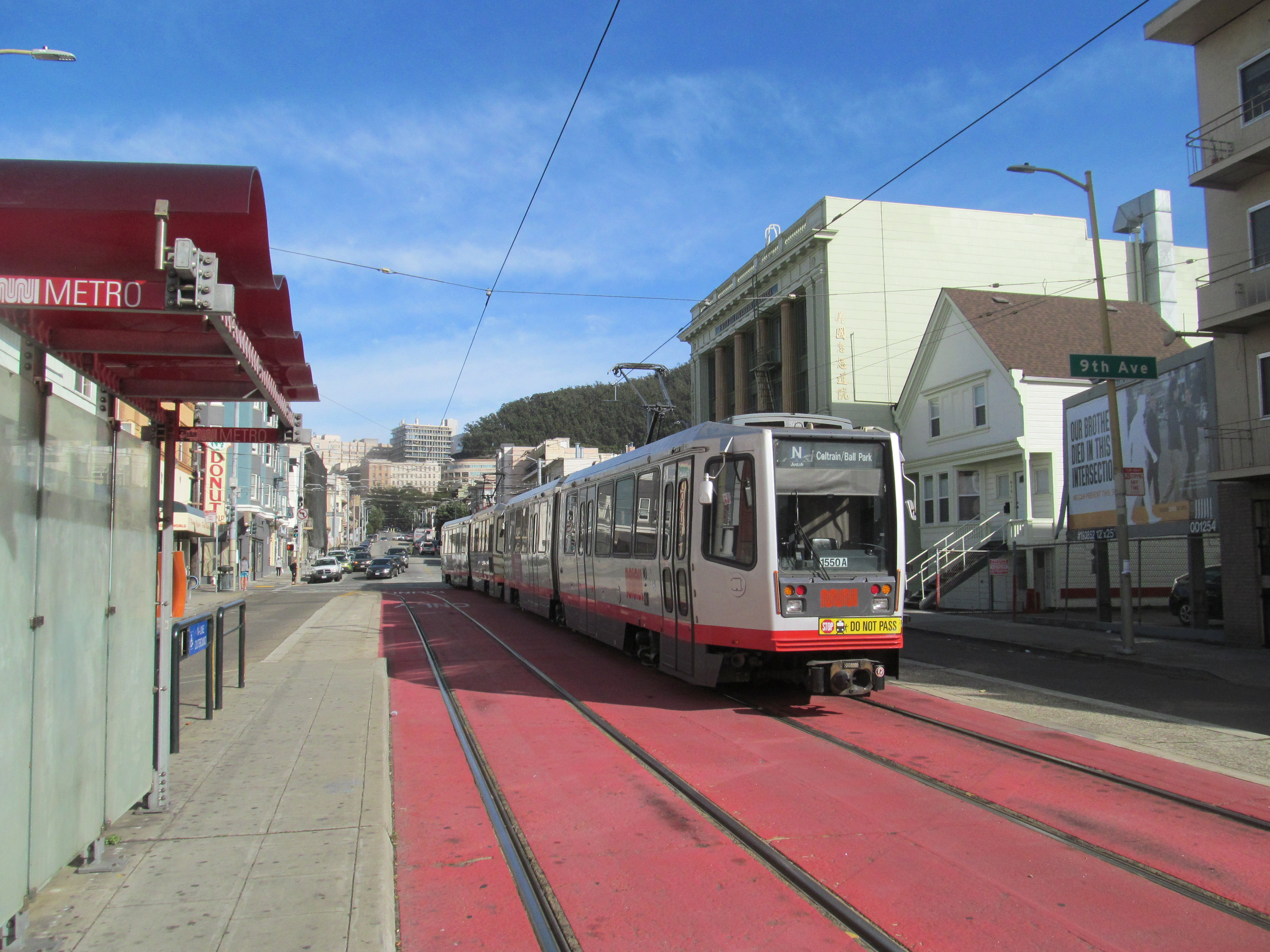 Inbound train at Judah and 9th Avenue station in October 2017